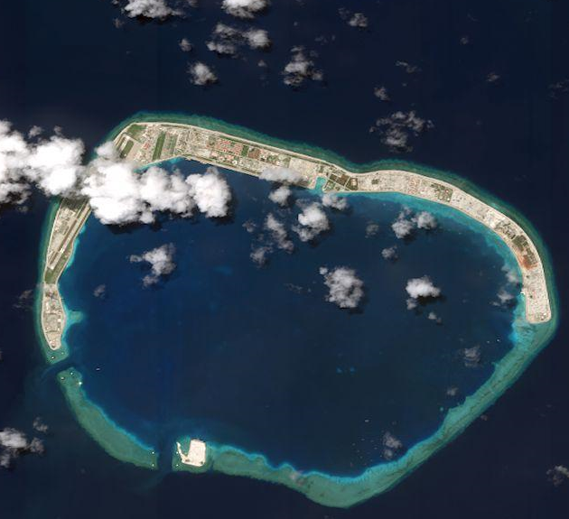 Mischief Reef is an atoll in Spratly Islands.